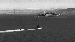 639 sailing into San Francisco